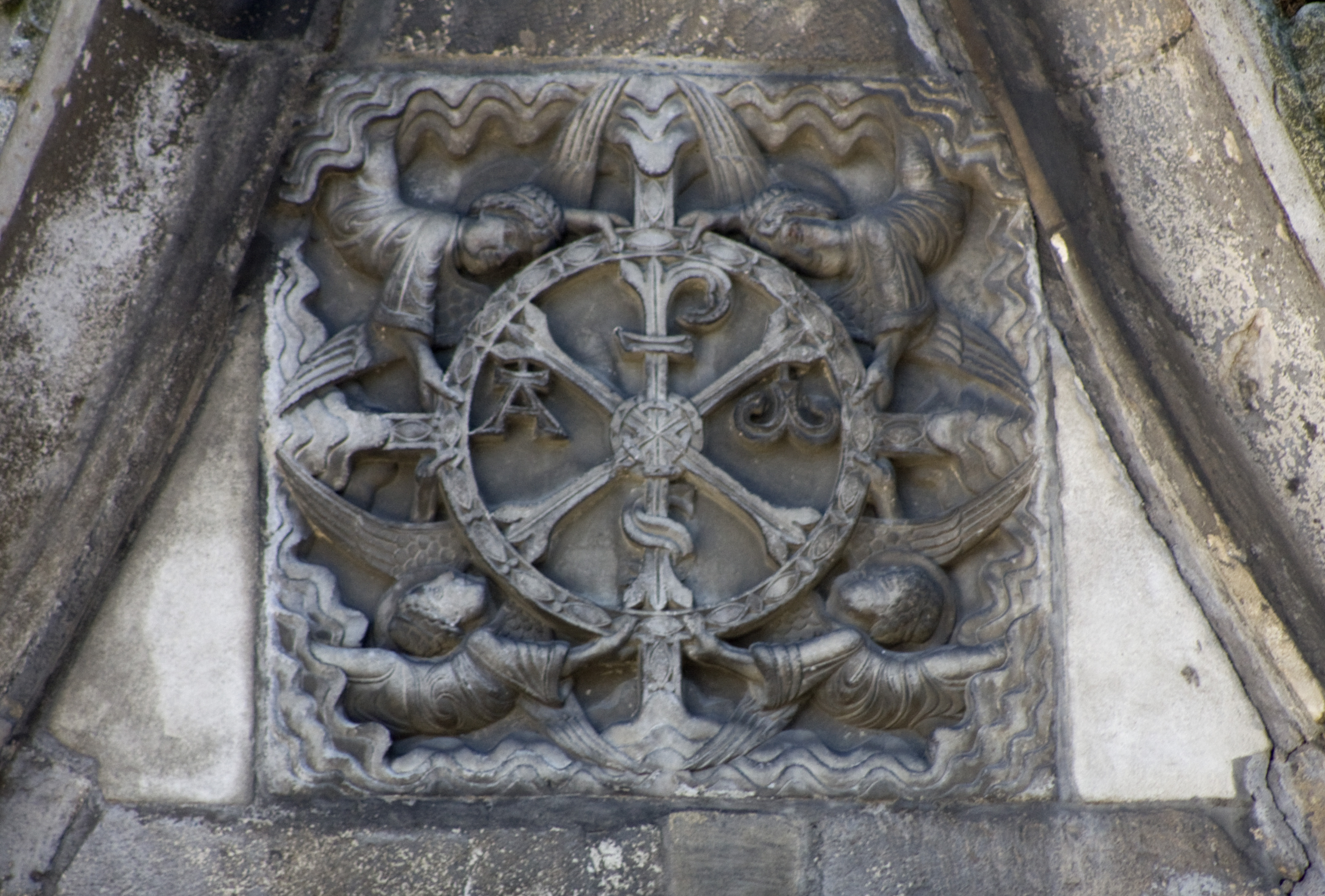 The christogram is carried by four angels; it is the only ornament of the doorway.